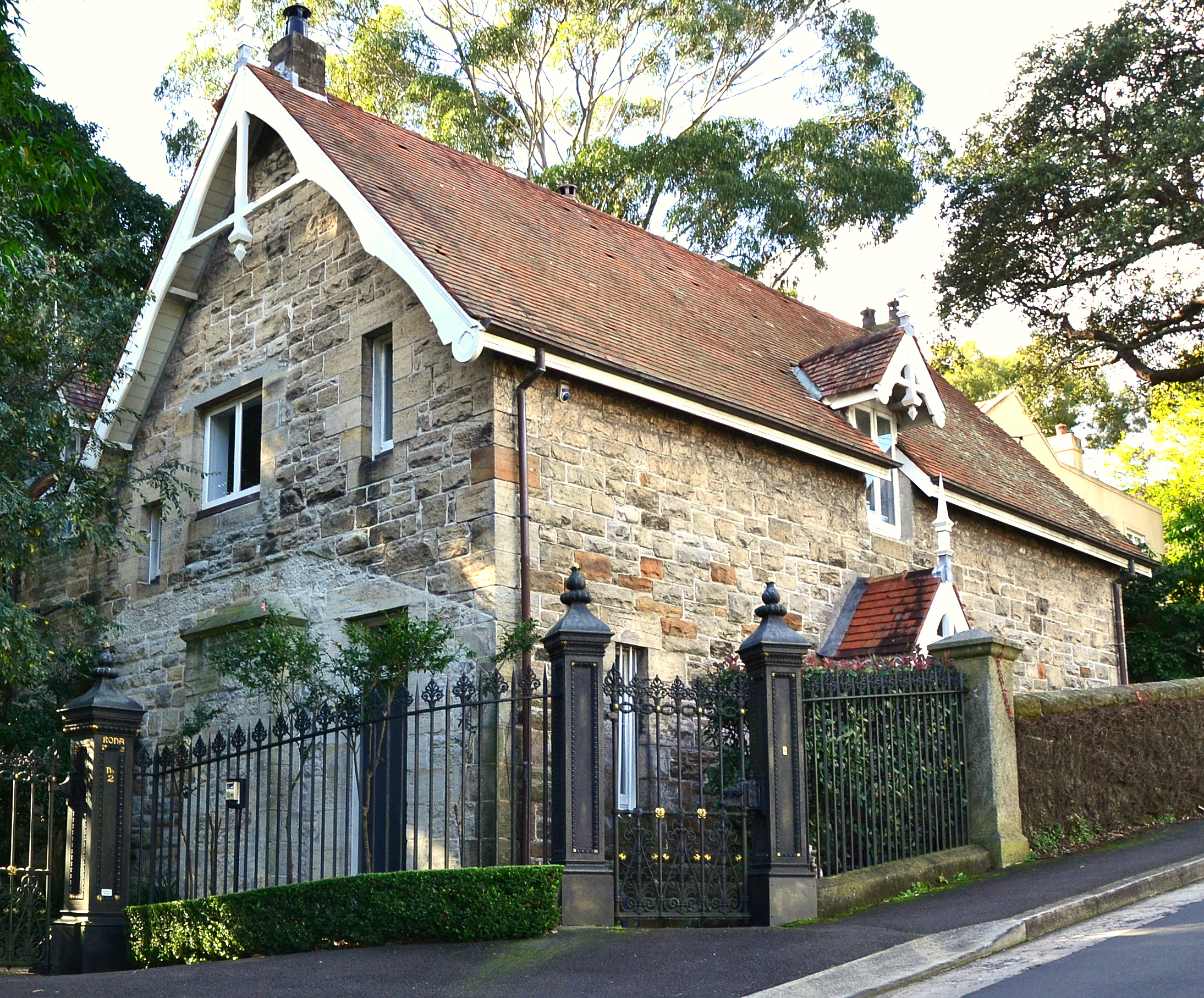 caretakers cottage, Rona, Bellevue Hill, Sydney